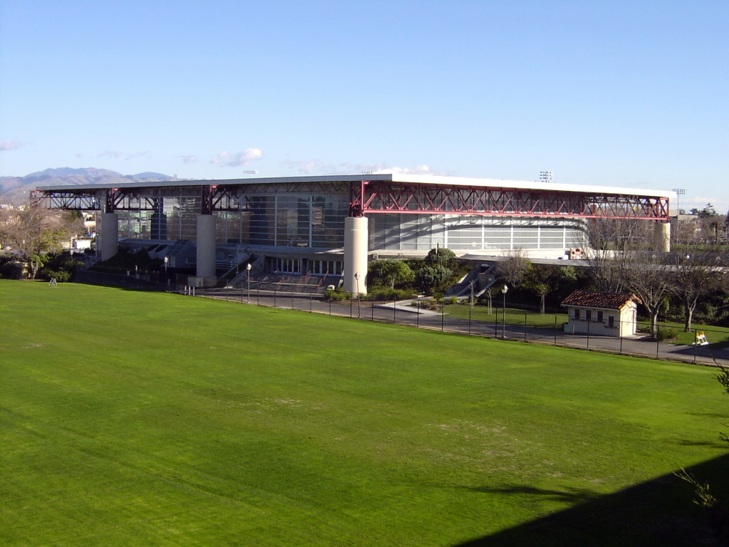 Leavey Center, California. Exterior view.